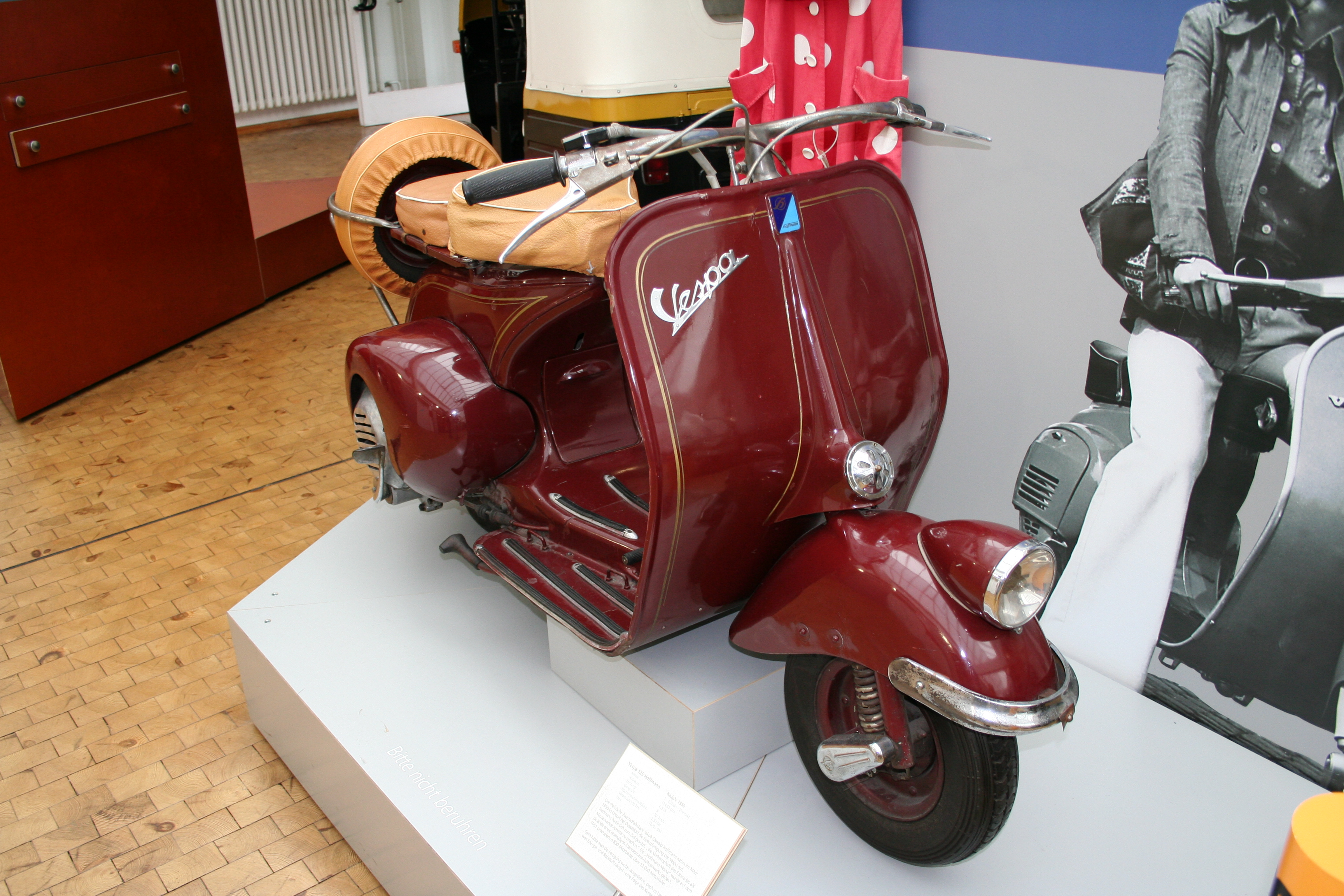 Vespa 125 scooter in the German Technology Museum Berlin.